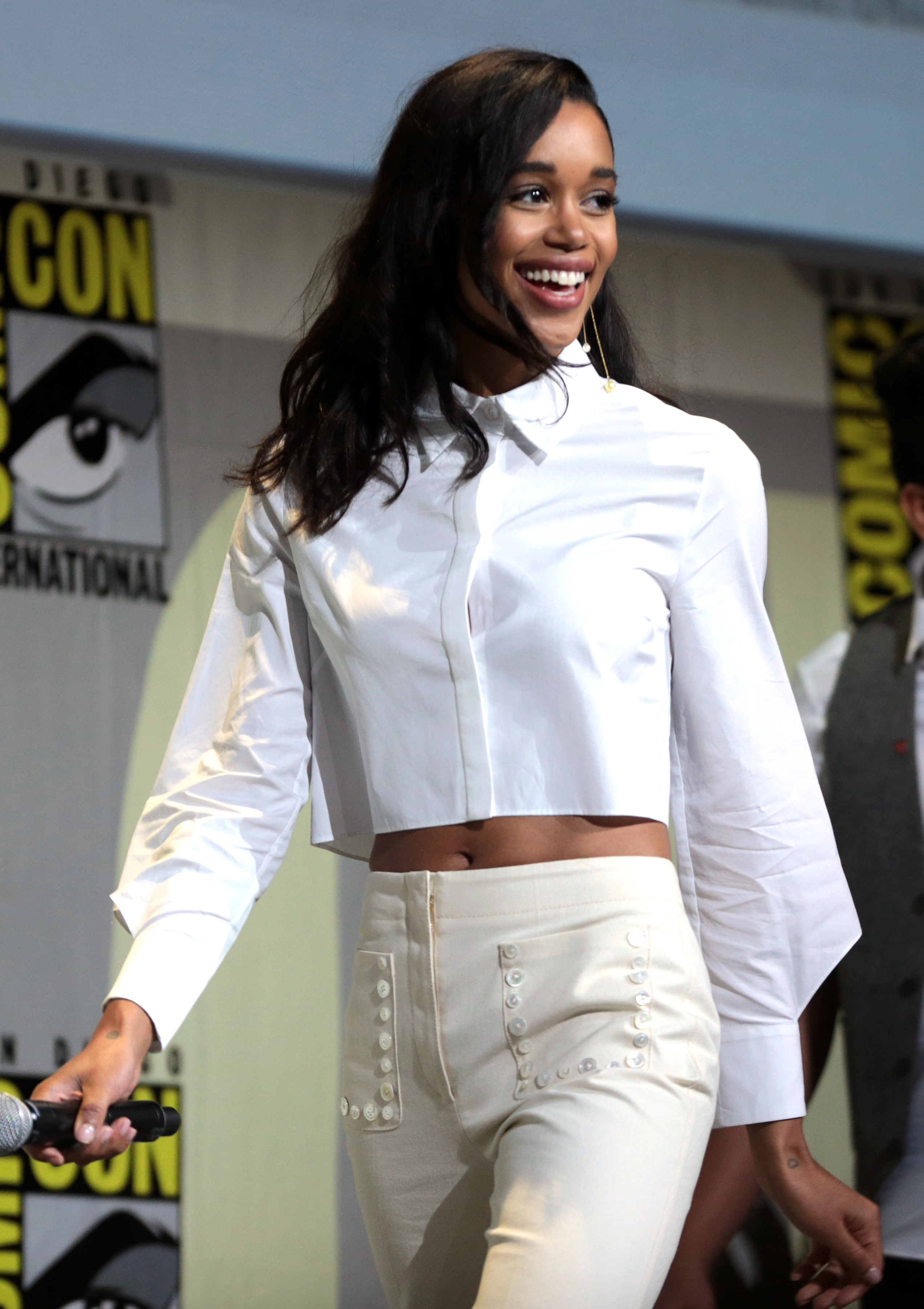 Laura Harrier speaking at the 2016 San Diego Comic-Con International in San Diego, California.